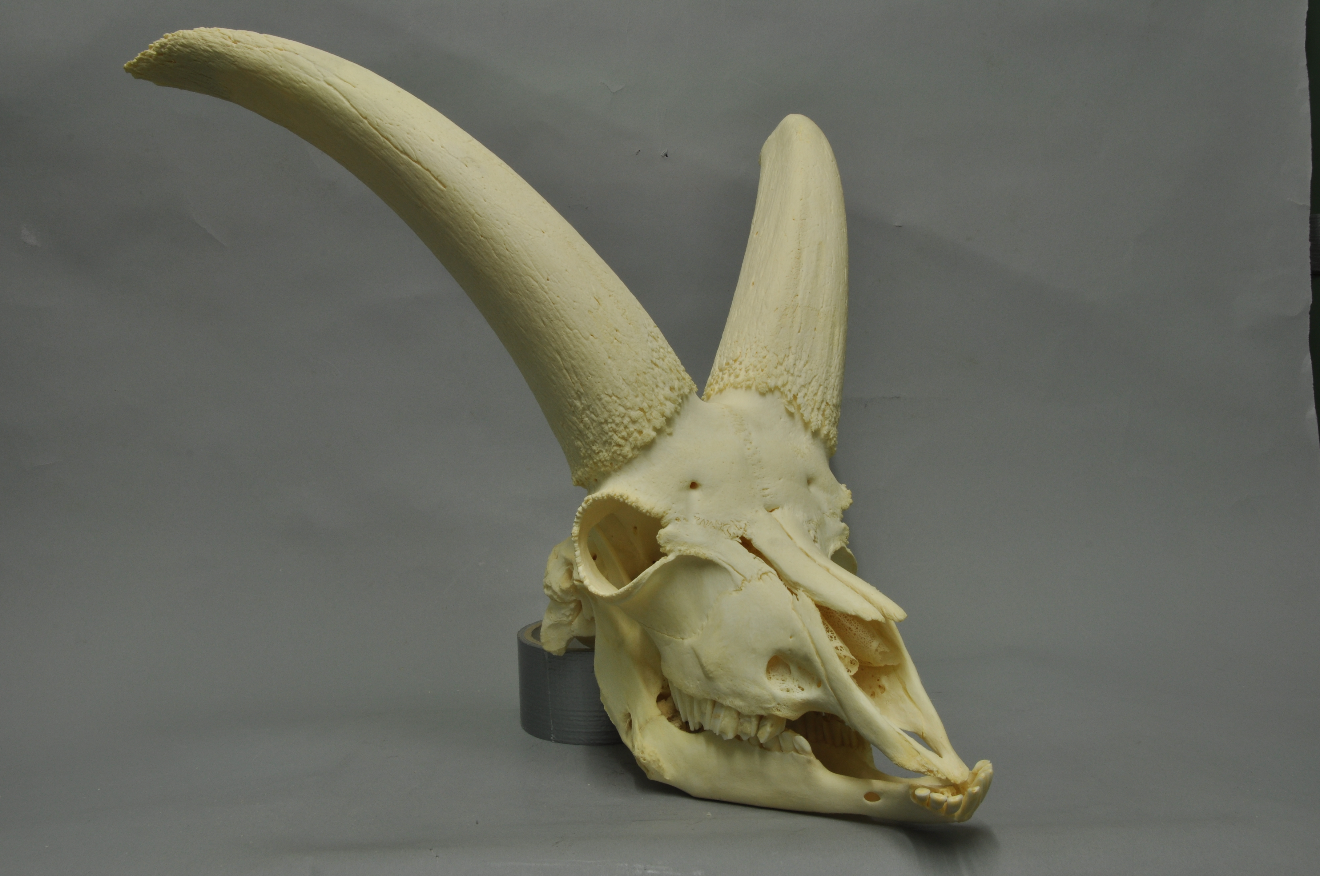 Alpine ibex Capra ibex, skull, Coll. Museum Wiesbaden